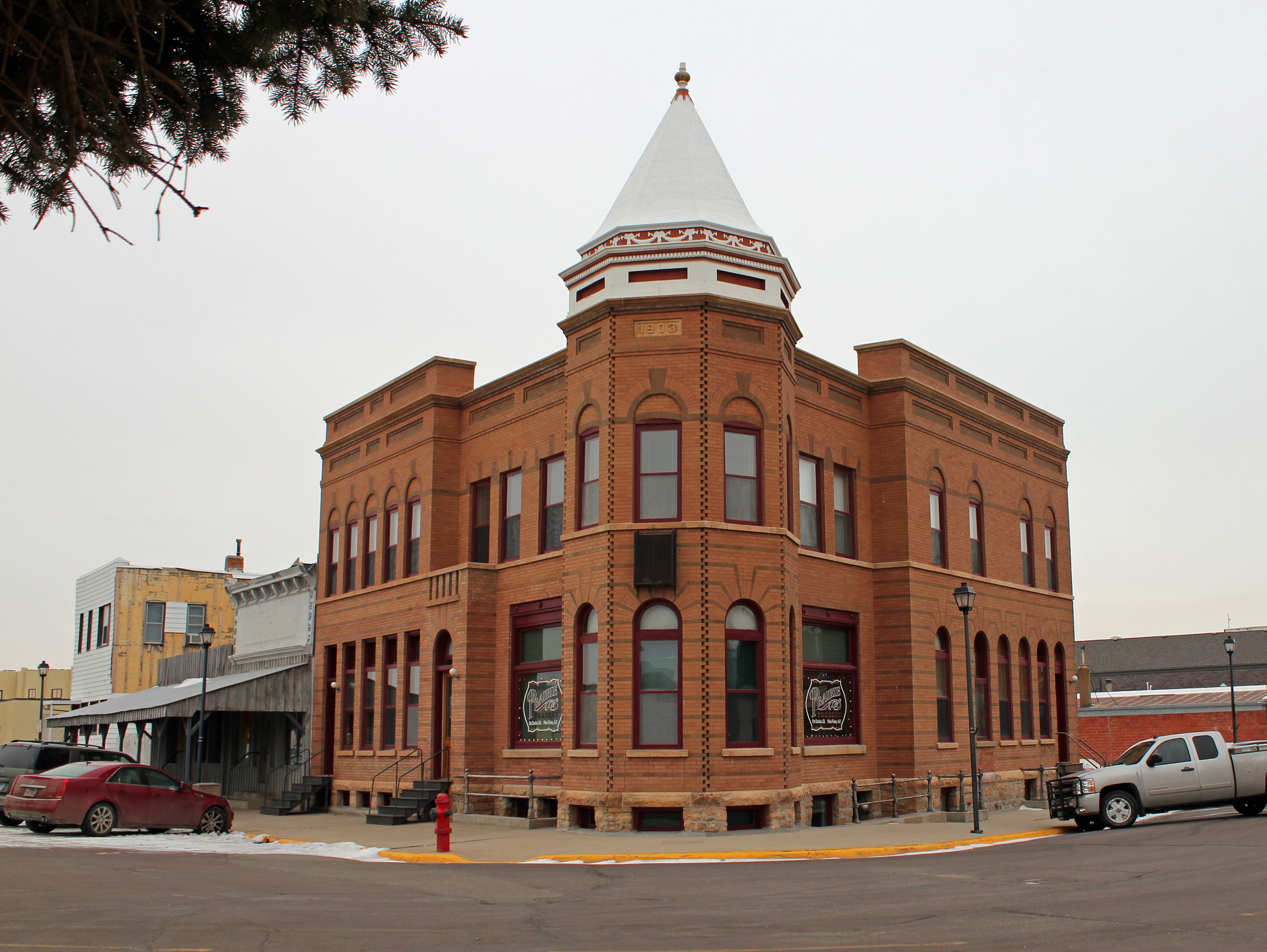 The Stockgrowers Bank Building in Fort Pierre, South Dakota. The building is on the National Register of Historic Places.